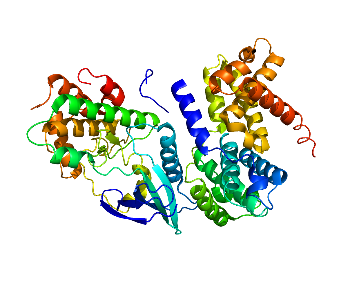 Structure of protein CCND1.Based on PyMOL rendering of PDB 2W96.